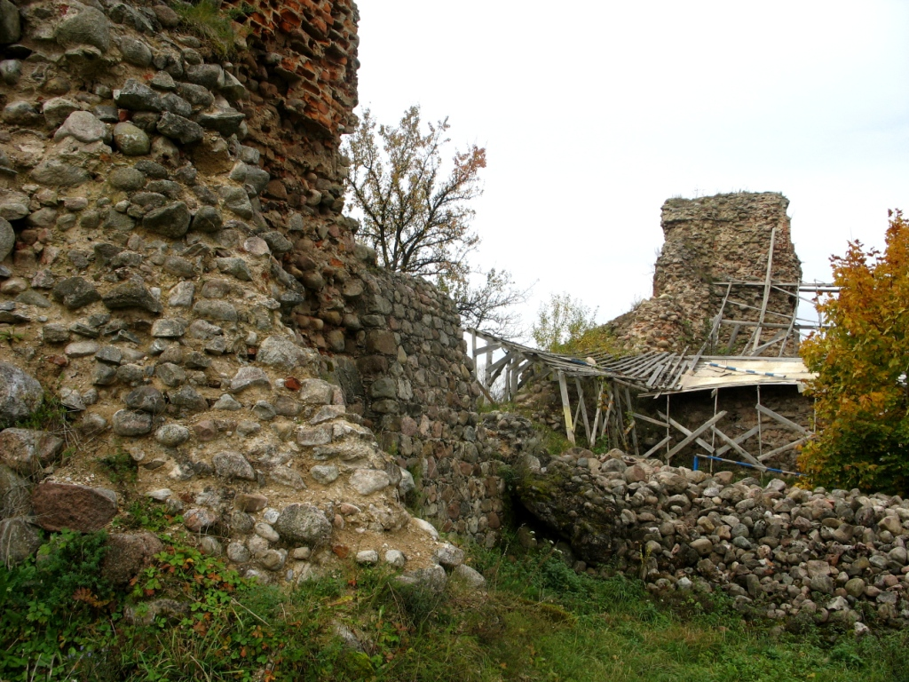 Castle of Kreva, Belarus